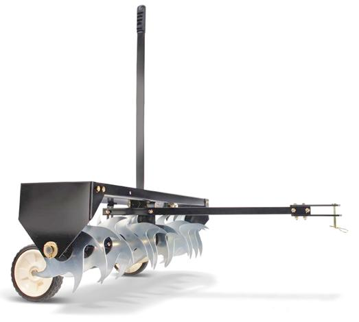 Agri-Fab curved spike aerator